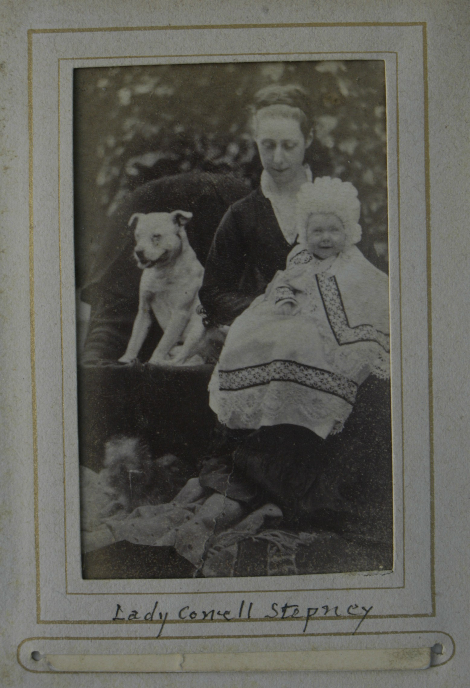 My photo (R. de SalisRodolph (talk) 22:12, 12 August 2013 (UTC)) of a photo of Lady Cowell-Stepney (1847-1921), a Staffordshire Bull Terrier and her daughter Catharine Meriel Alcyone (1876-1952). Photo by Studio of C. Stephenson of Ascot, Sunninghill. Other information 1880